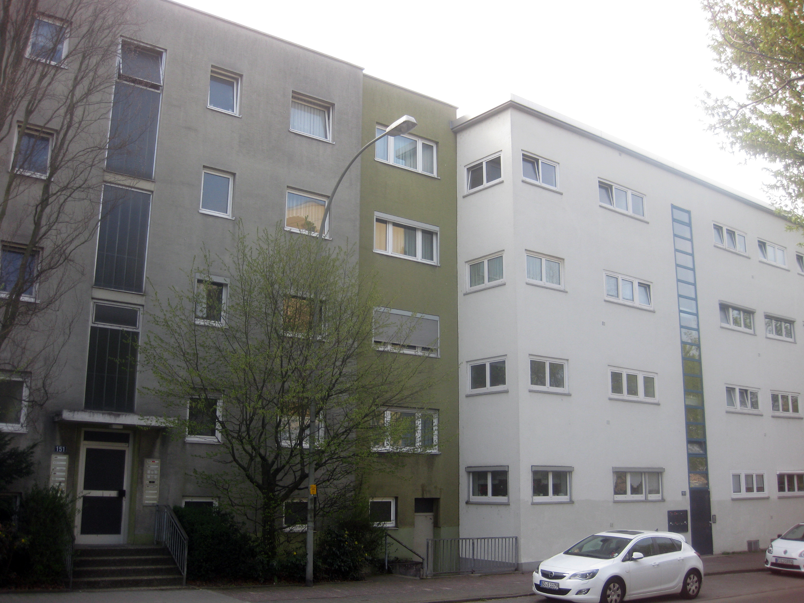 At the left a building of postwar social housing, on the right a building designed for the "New Frankfurt"-project in the 1920ies.